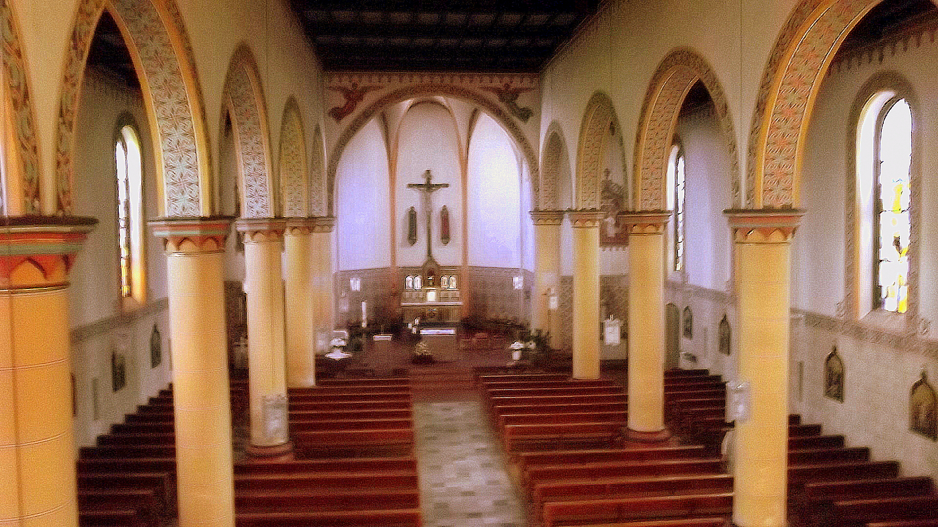 Interior of the roman catholic church in Diefflen, Saarland, Germany